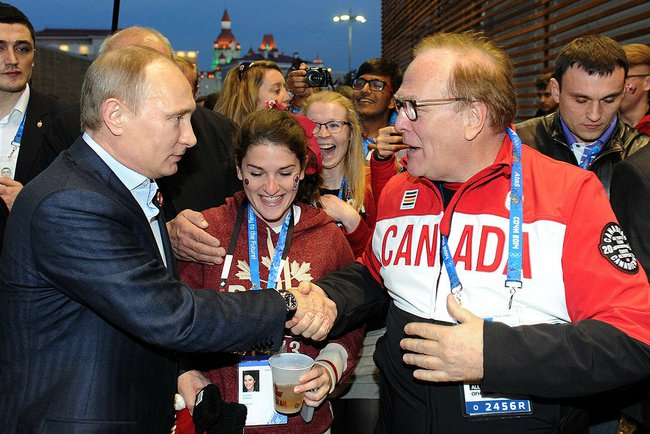 Vladimir Putin visited the US and Canada’s team fans houses at the Olympic Park in Sochi (2014-02-14). During visit to Canada House at the Olympic Park in Sochi. With President of the Canadian Olympic Committee Marcel Aubut.